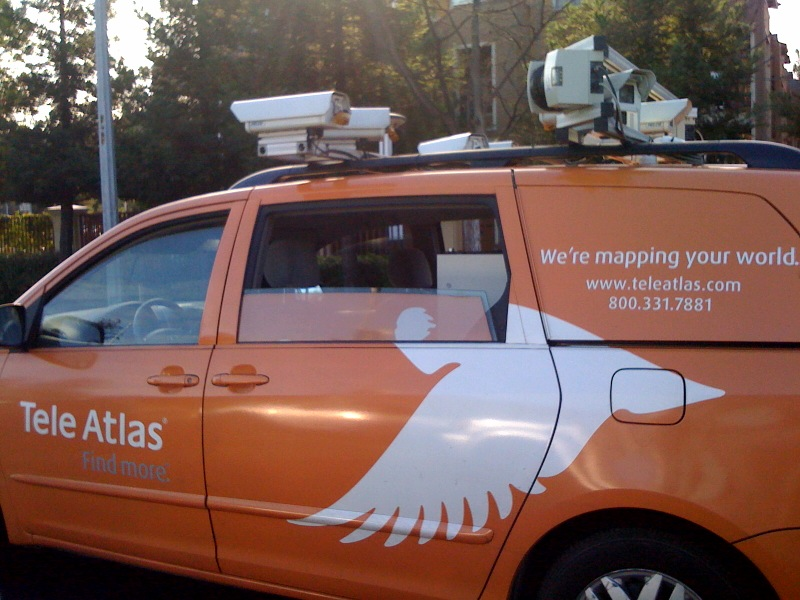 Tele Atlas mapper van close-up with camera rig. Logo obscured. Taken from left side of the vehicle heading east on Steven's Creek Blvd at Lawrence Expressway in the morning. Santa Clara, CA.